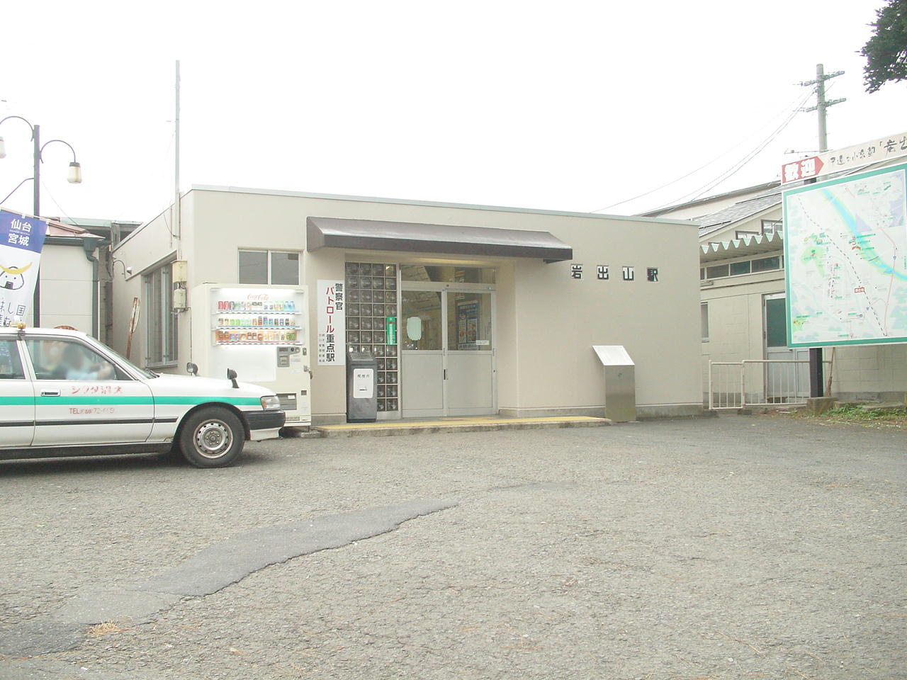 Iwadeyama Station on East Rikuu Line